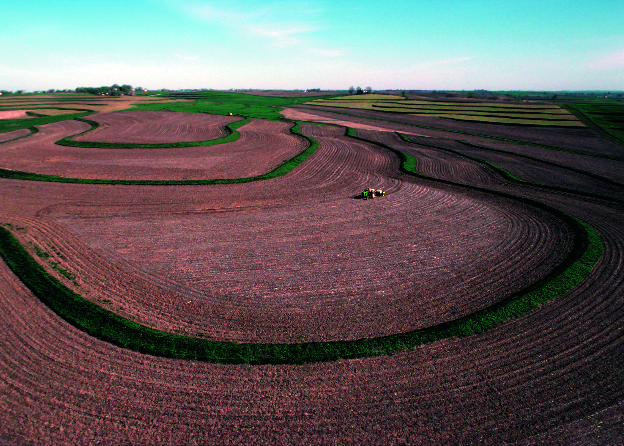 Terraces and no-till farming work to control erosion on a farm in Montgomery County, Iowa.